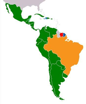 The main language in South America.